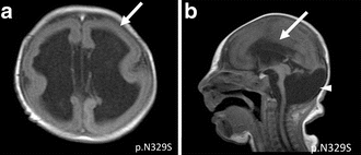 Magnetic resonance imaging (MRI) of two patients. a, b Patient A (p.N329S TUBA1A mutation) shows lissencephaly with cerebellar hypoplasia. Thin cerebral mantle and agyric cerebral cortices (arrow in figure a) are observed without an anterior-posterior gradient. The corpus callosum is not present (arrow in figure b).